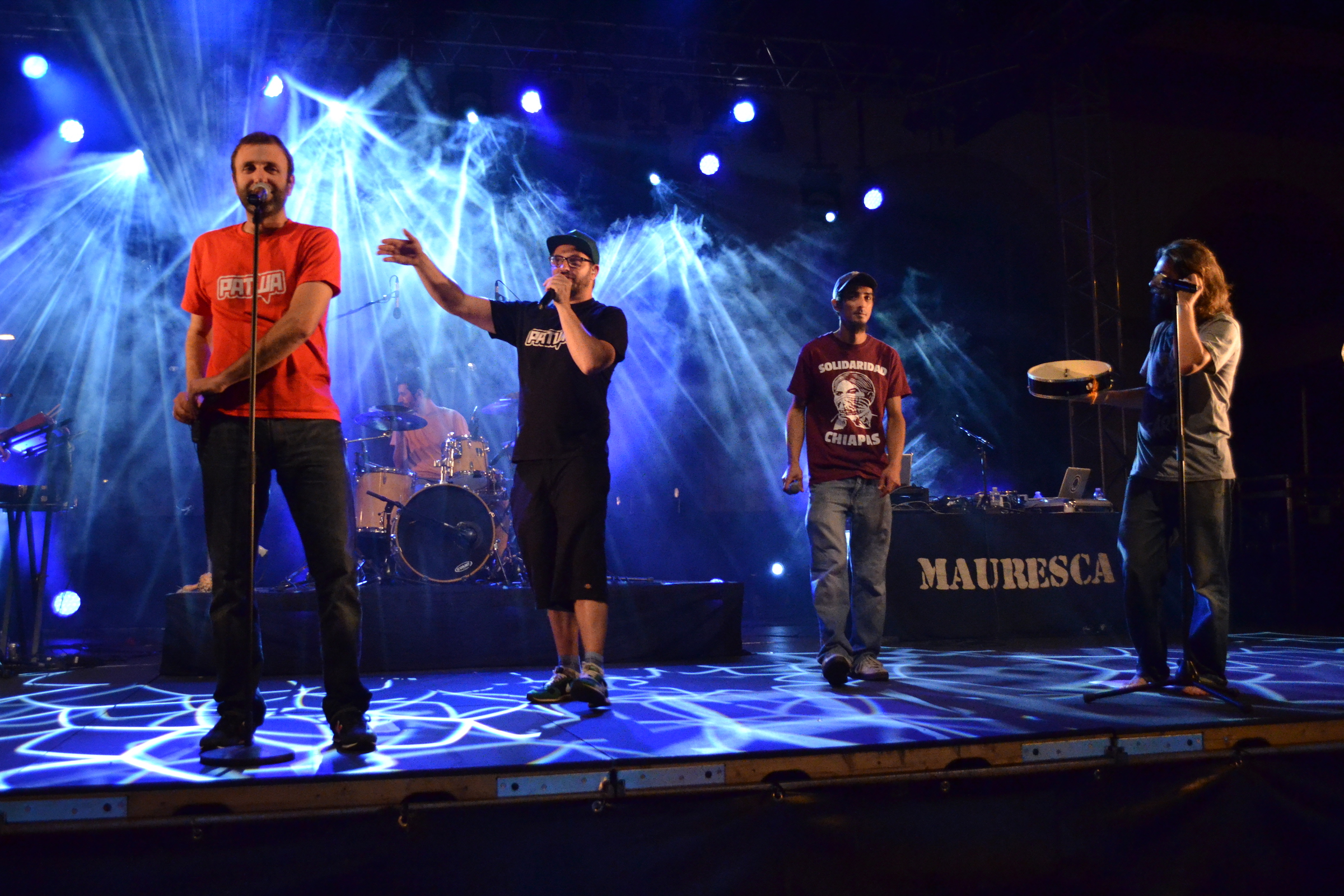 Mauresca Fracas Dub concert during Euroregional Forum "Heritage and creation" in Castelnaudary in 2016.